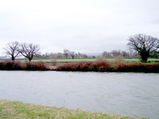 Hardwicke Court from the Sharpness to Gloucester Canal. Looking east over the choppy waters of the wide windswept canal to the court in the distance.